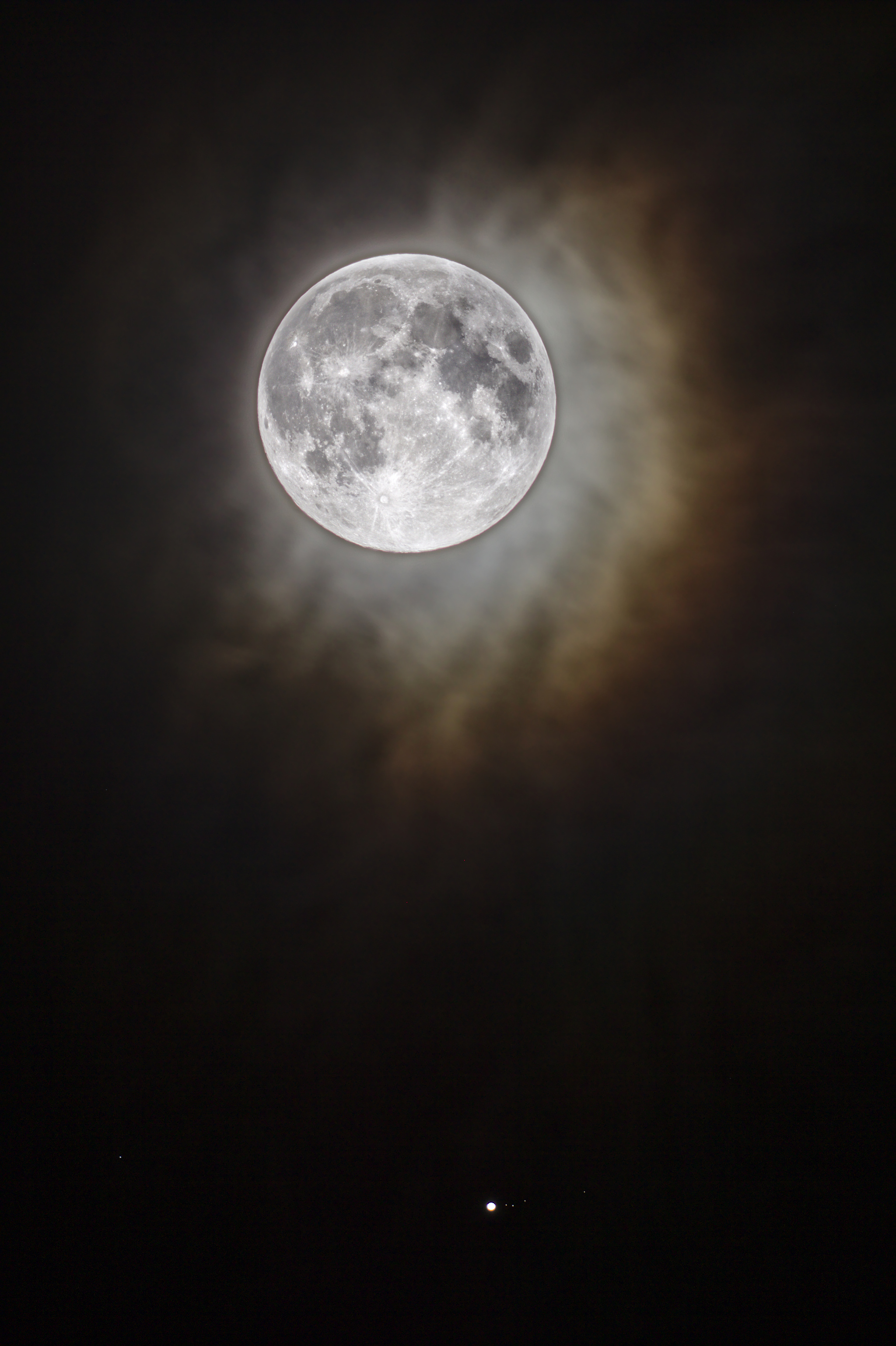 Conjunction of Jupiter and the Moon. Image combined with two separate exposures.